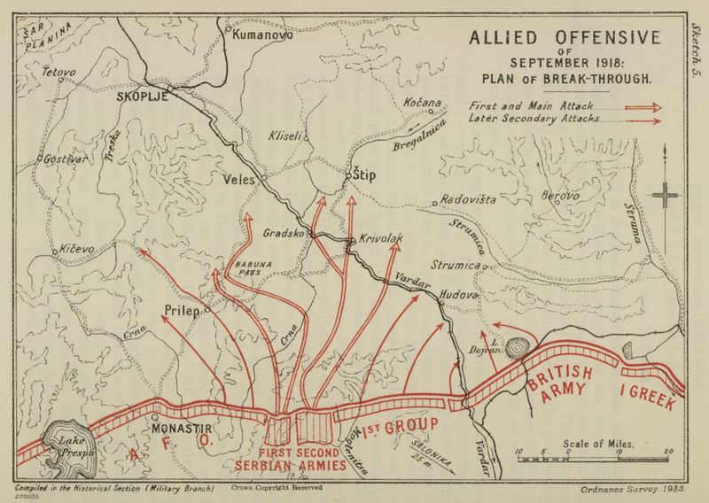 Allied plan for battle of Dobro pole, 1918